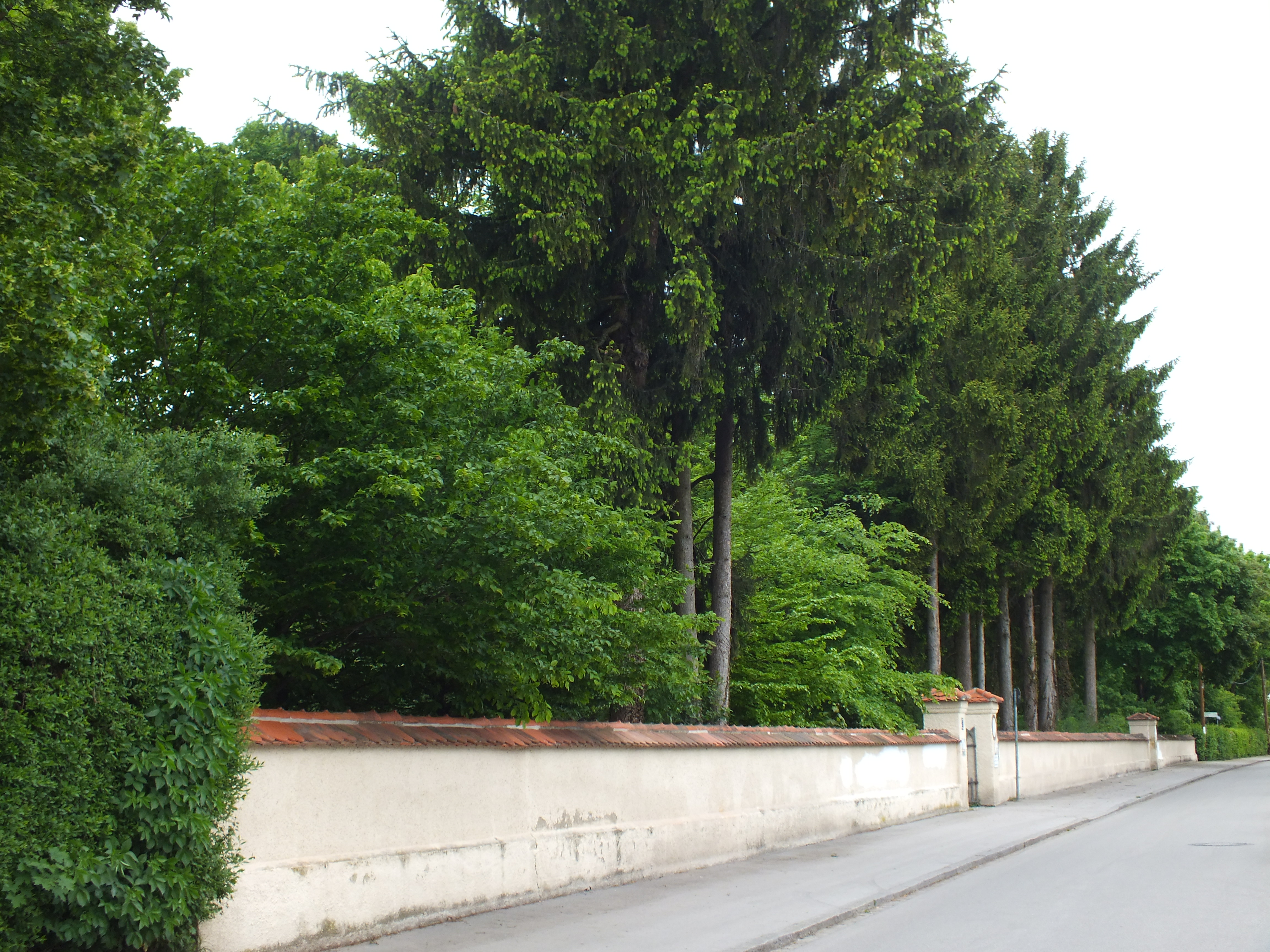 Cemetery of Feldmoching (Munich)